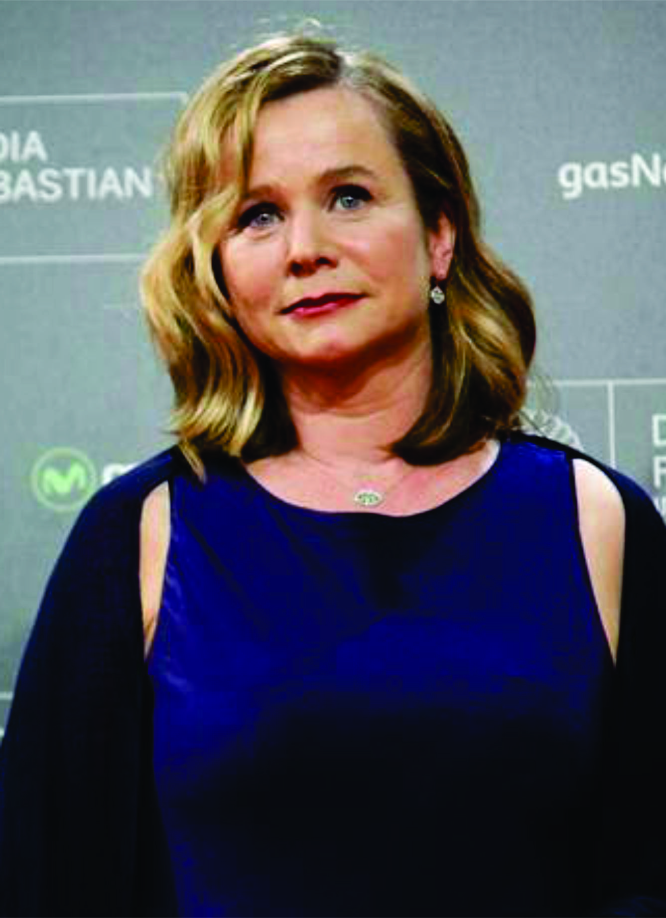 Actress Emily Watson at the 2016 San Sebastían Film Festival in Spain.